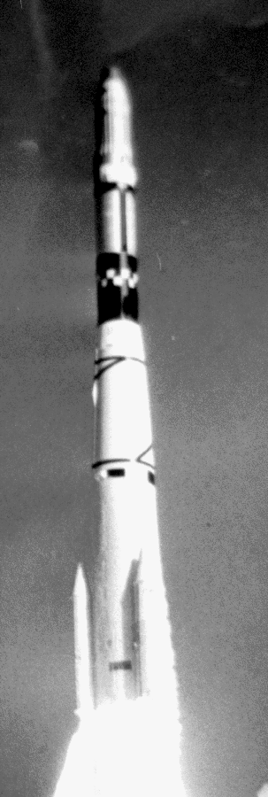 Corona 71 spy satellite onboard of Thor SLV-2A Agena D launch vehicle